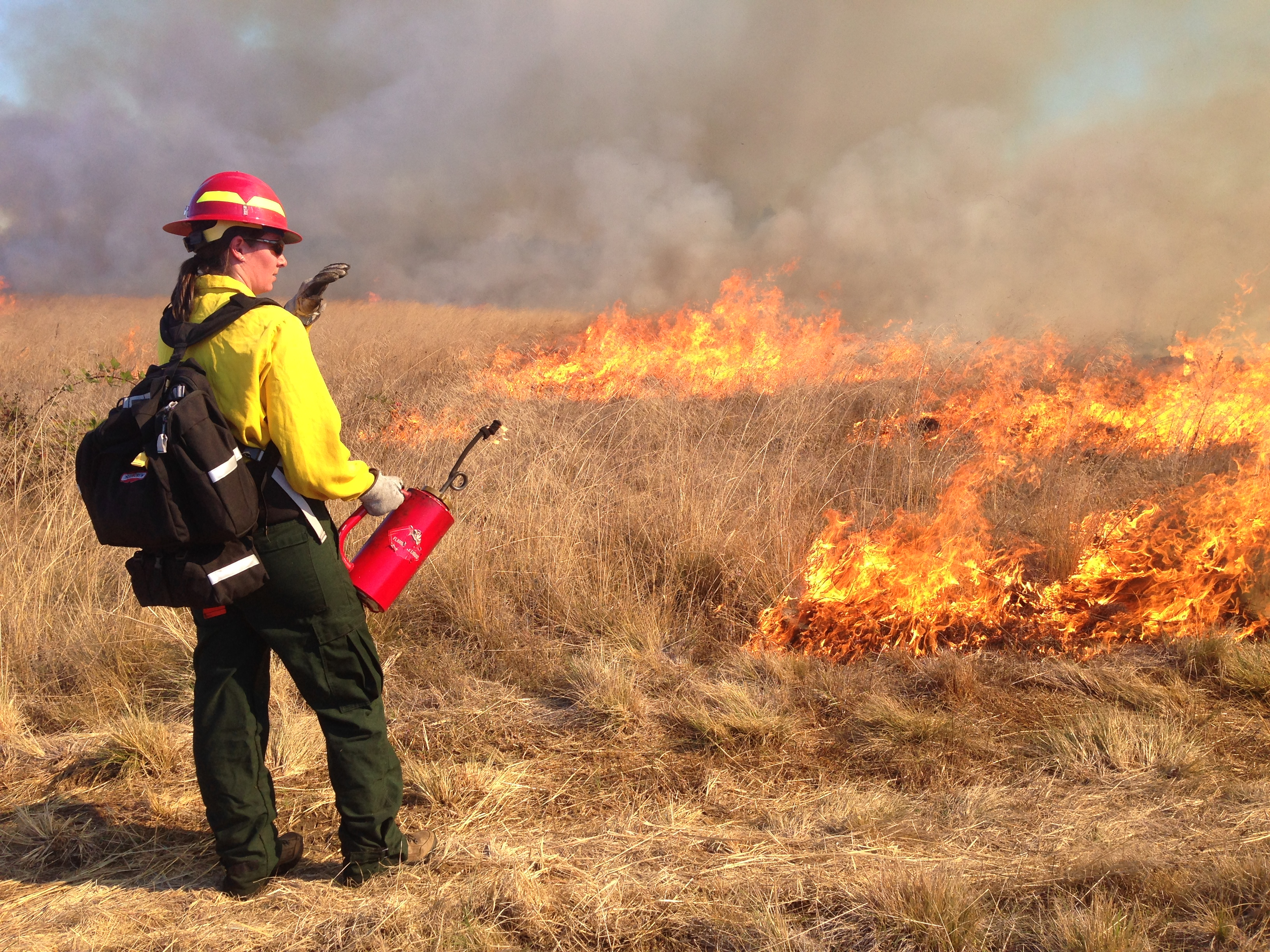 Employee submissions for 2015 photo contest. Photos taken from public land in Oregon and Washington.